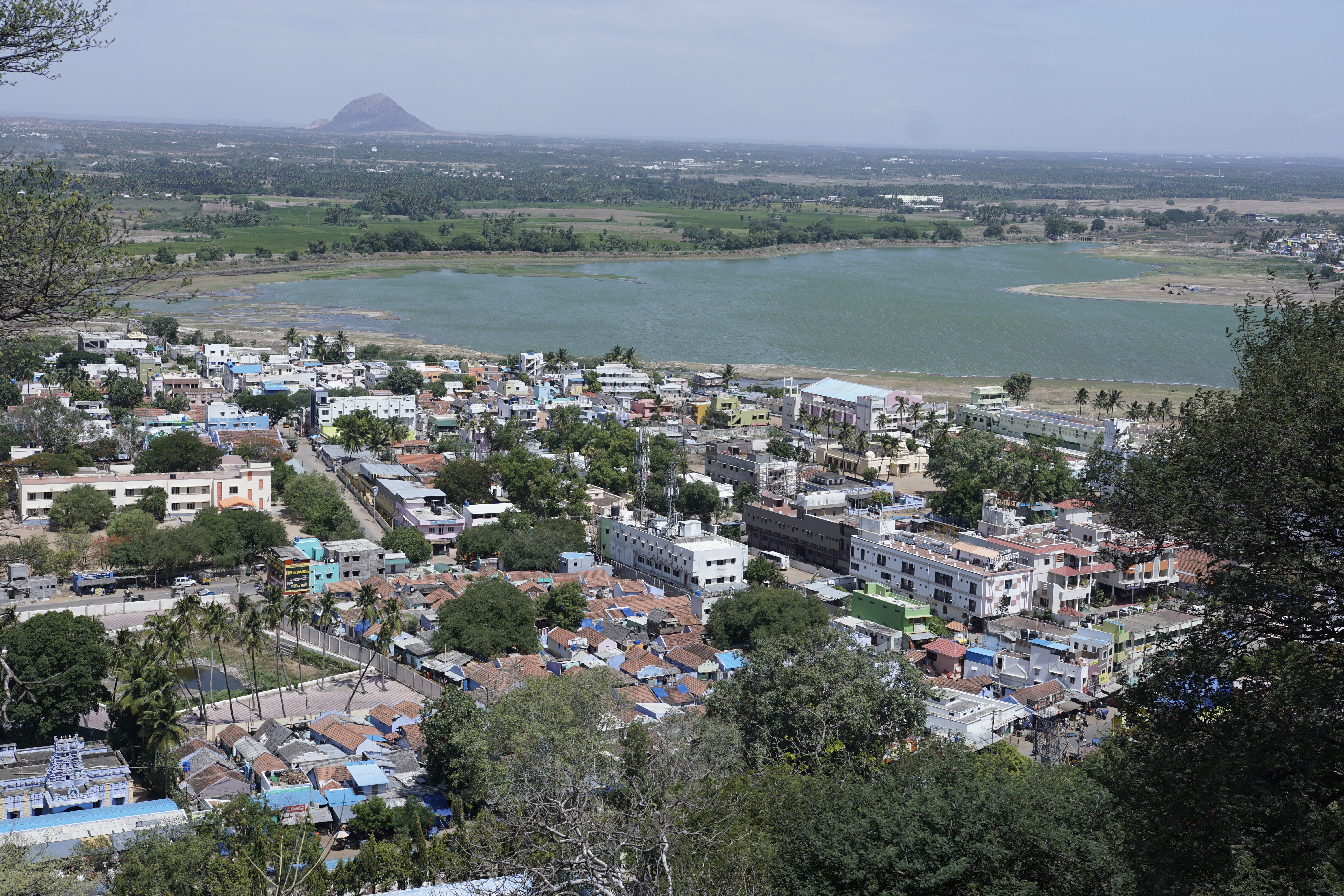 Palani